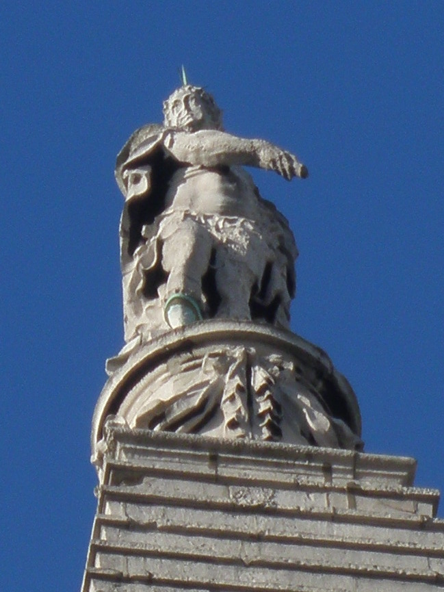 The statue of George I of England atop St. George's Church, Bloomsbury